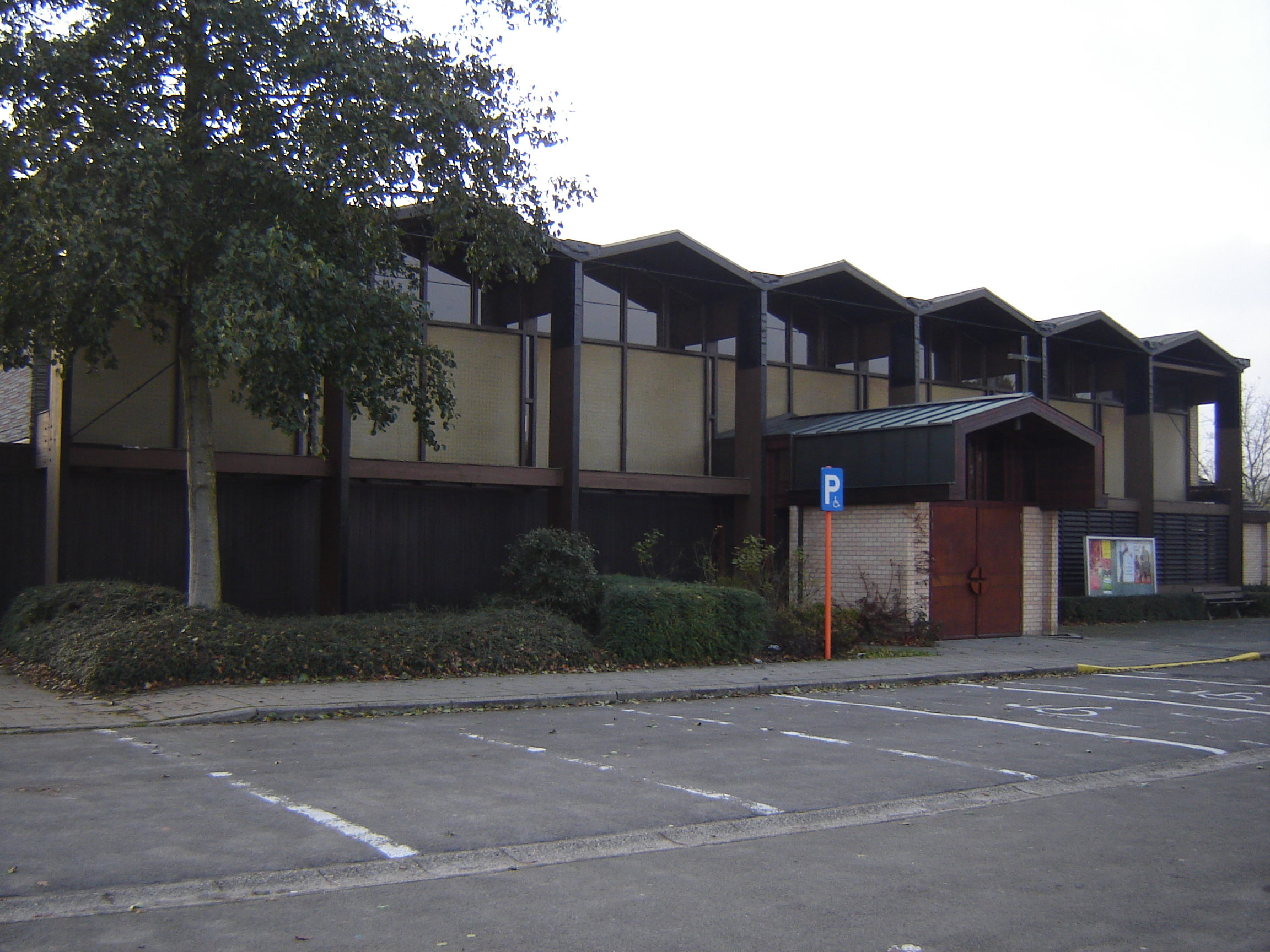 Church of Saint Godelina in Sint-Michiels. Sint-Michiels, Brugge, West Flanders, Belgium.